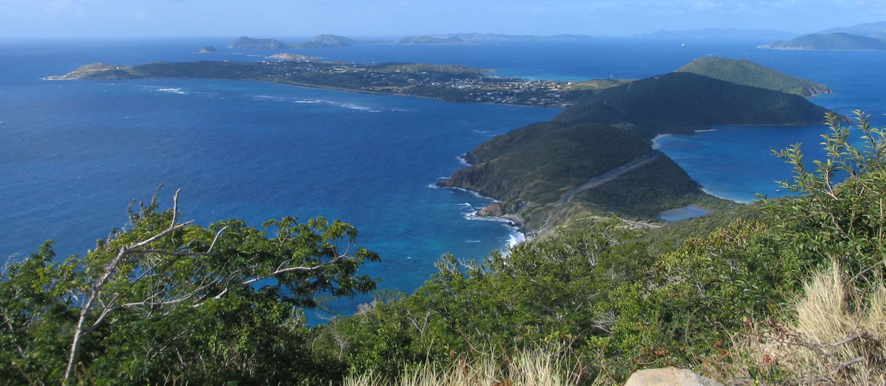 An Overview of the Island of Virgin Gorda.